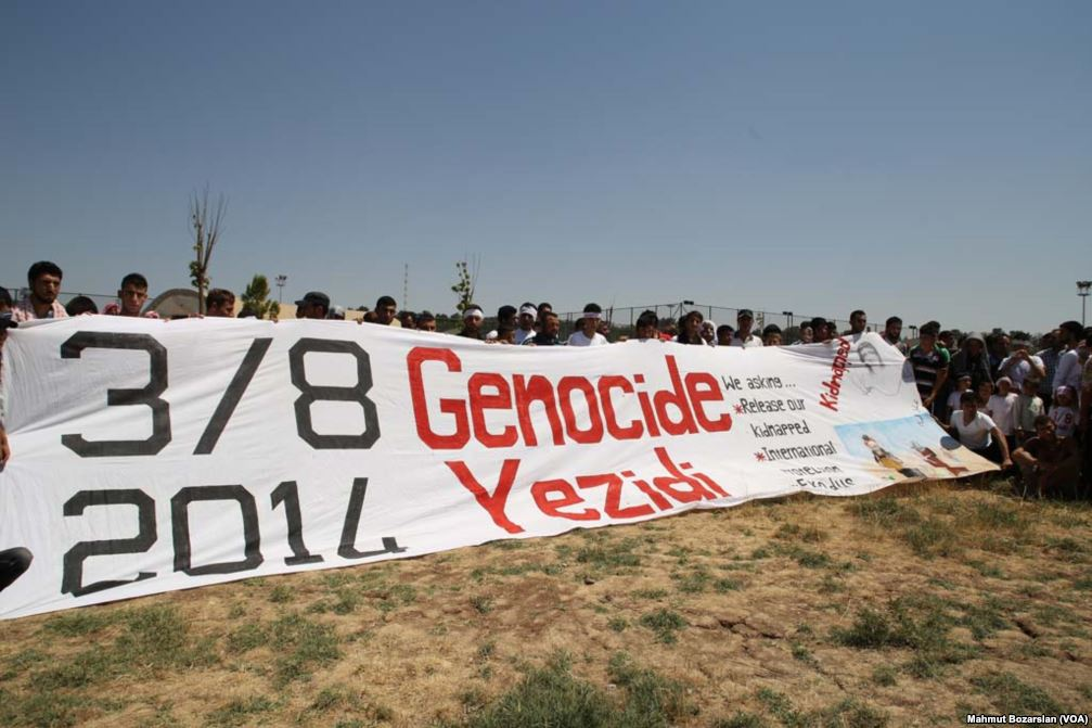 Yezidi Genocide Memorial Day in Diyarbakır 3 August 2015